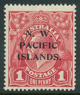 Stamp of Australia overprinted for North West Pacific Islands (former German New Guinea), 1918, 1 penny.